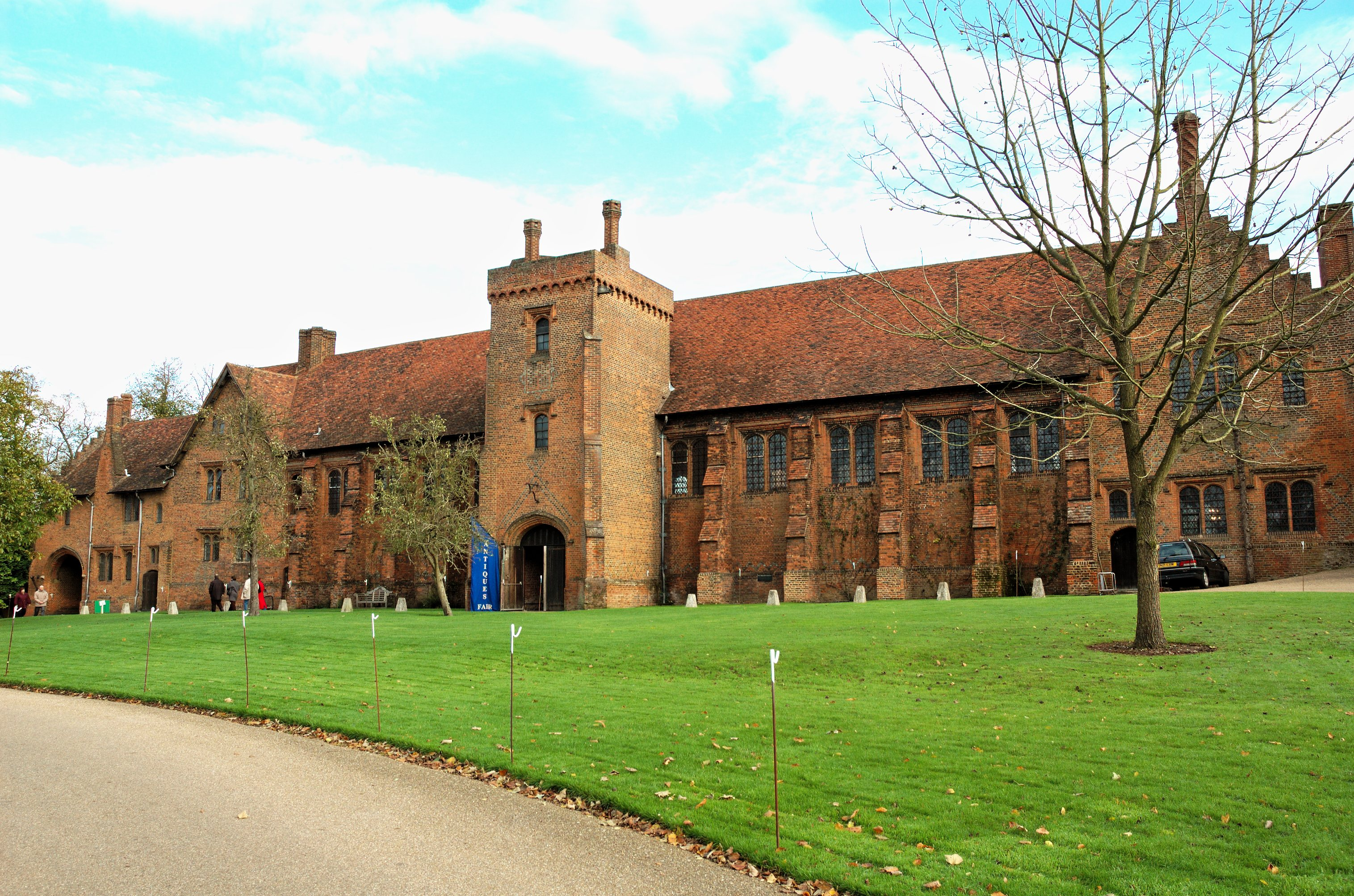 The Old Palace, Hatfield.